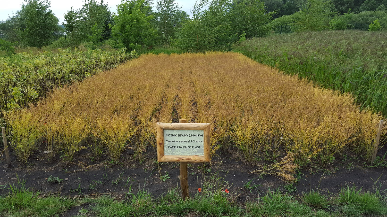 False flax (Camelina sativa) exhibition field in Biskupin Archaeological Museum, Poland